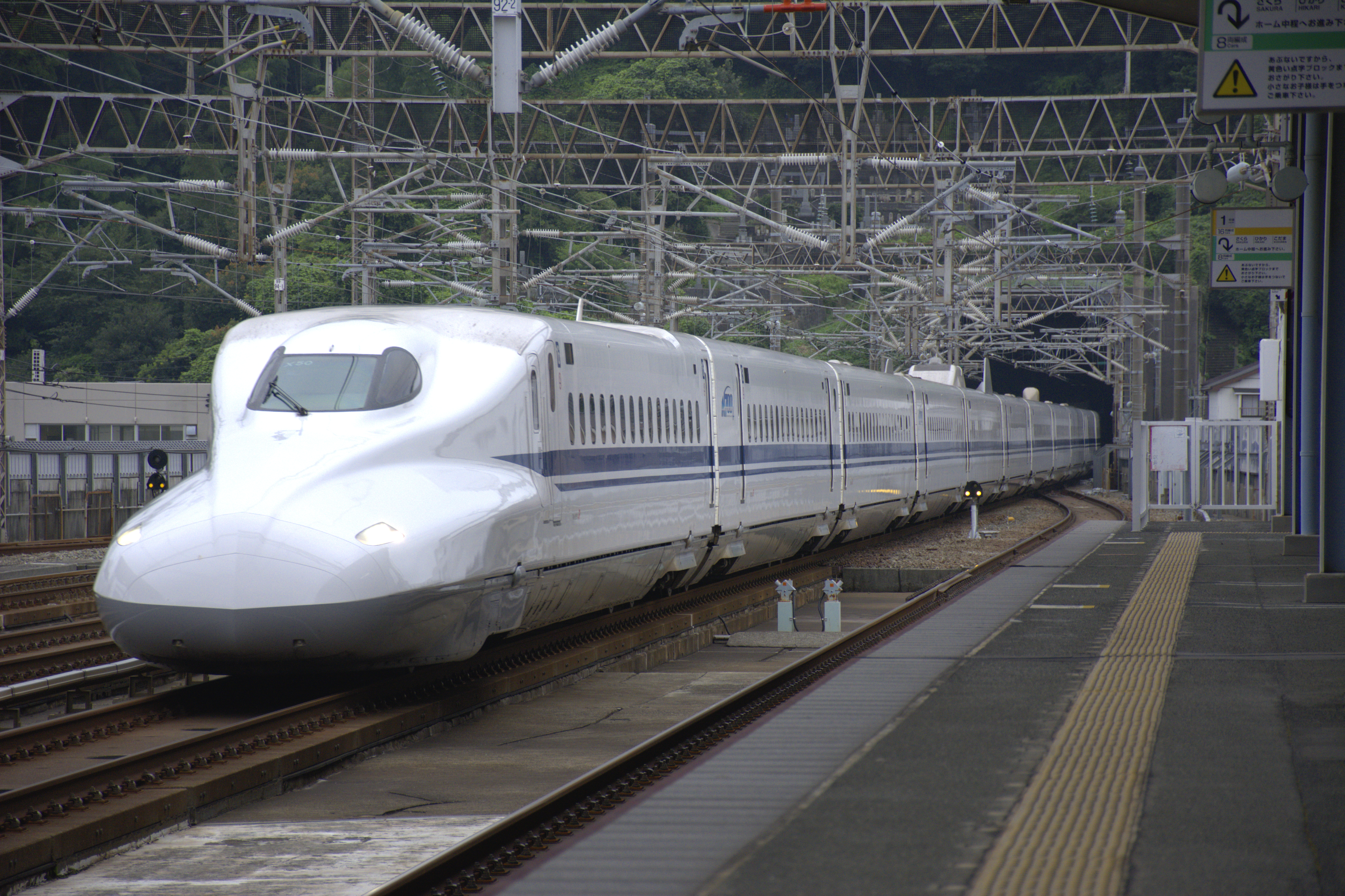 JR Central N700-2000 series "N700A" shinkansen set X50 passing through Shin-Shimonoseki Station on the Nozomi 14 service